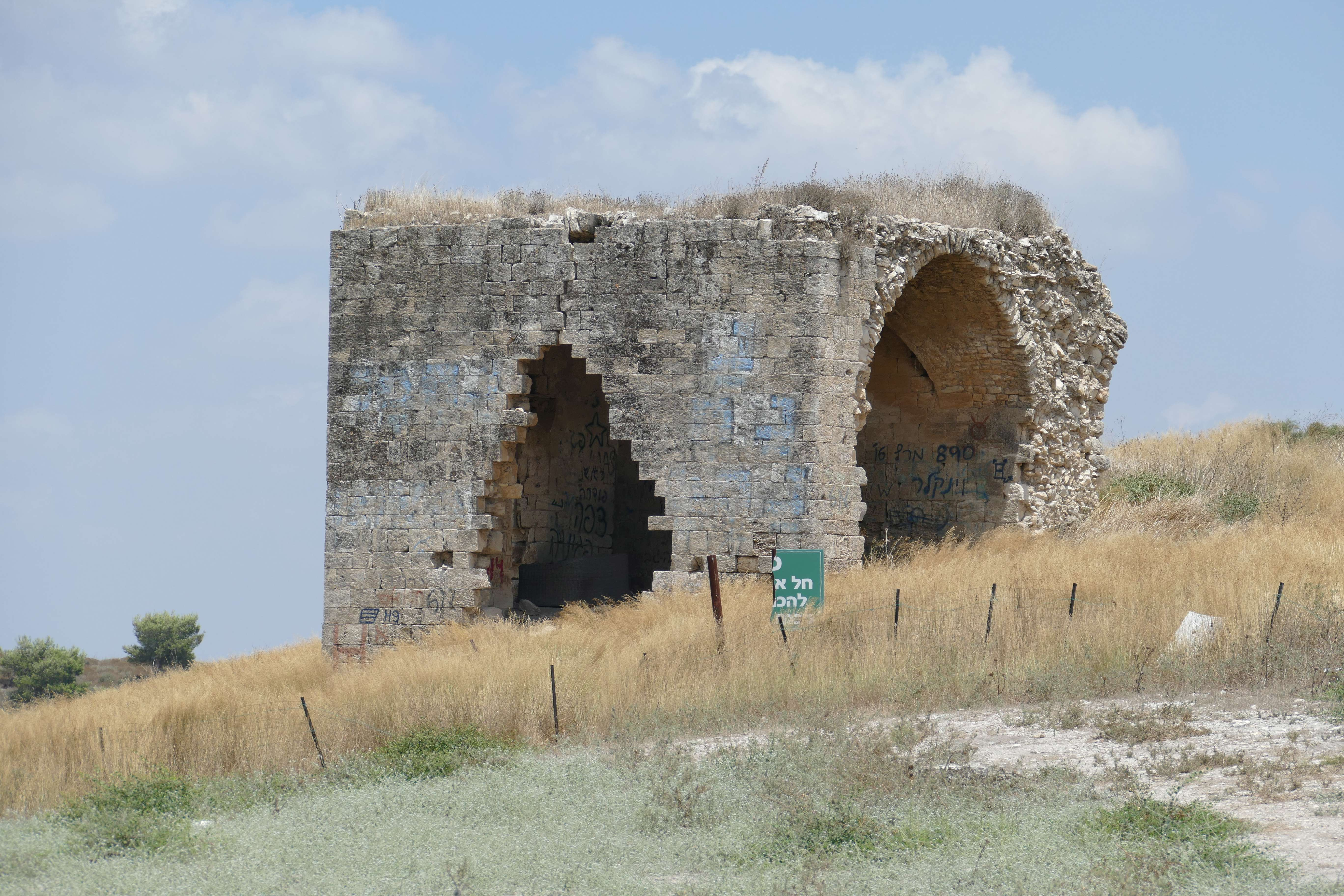 Khan Qira, Yokneam, Israel.